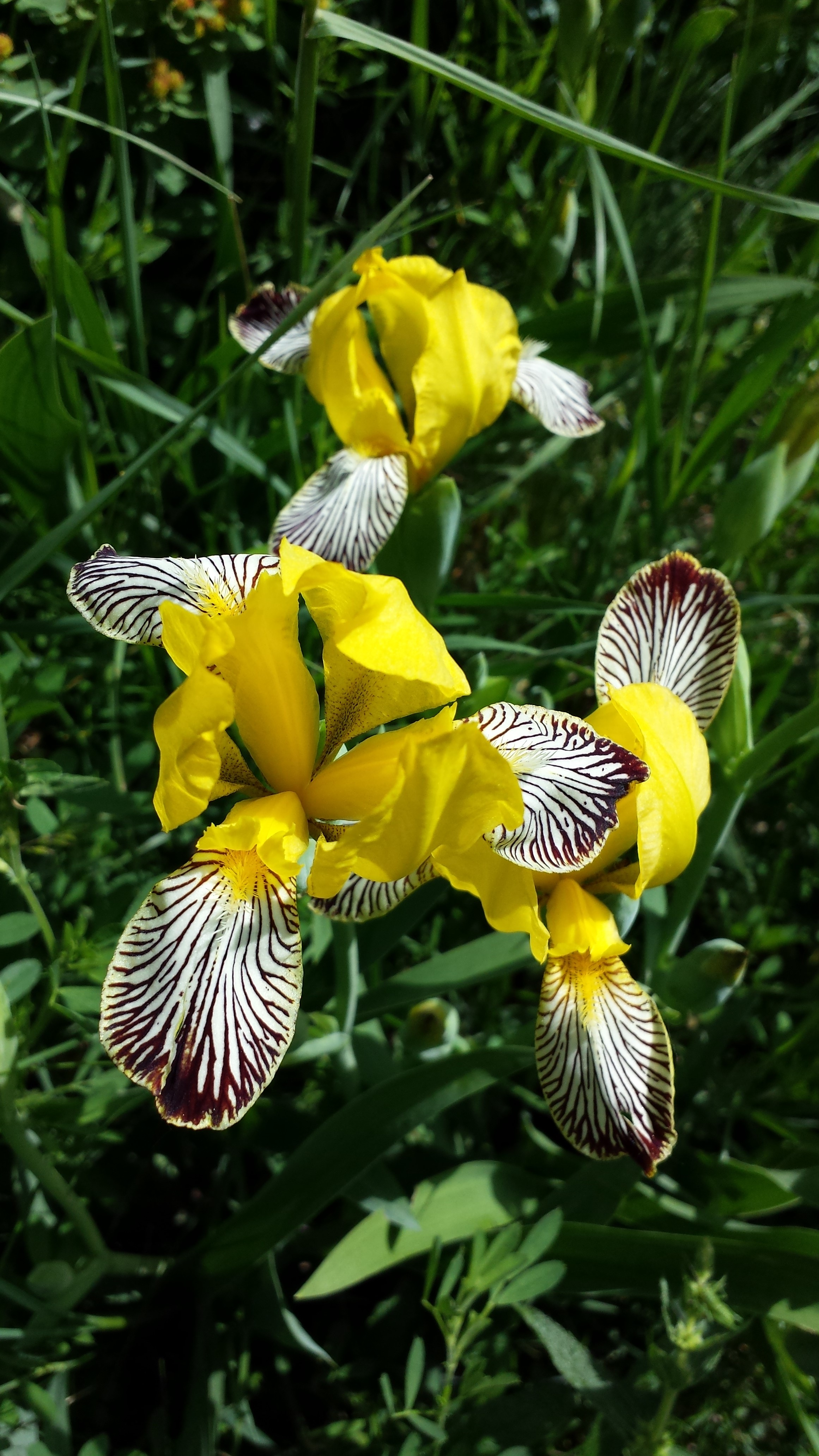 Taxon: Iris variegata (sensu Fischer et al. EfÖLS 2008) Location: Alte Schanzen, object XII, Floridsdorf, Vienna - ca. 225 m a.s.l. Habitat: dry grassland